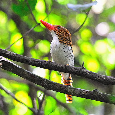 Banded Kingfisher (Lacedo pulchella) female in Khao Yai, Mueang Nakhon Nayok, Nakhon Nayok, Thailand.